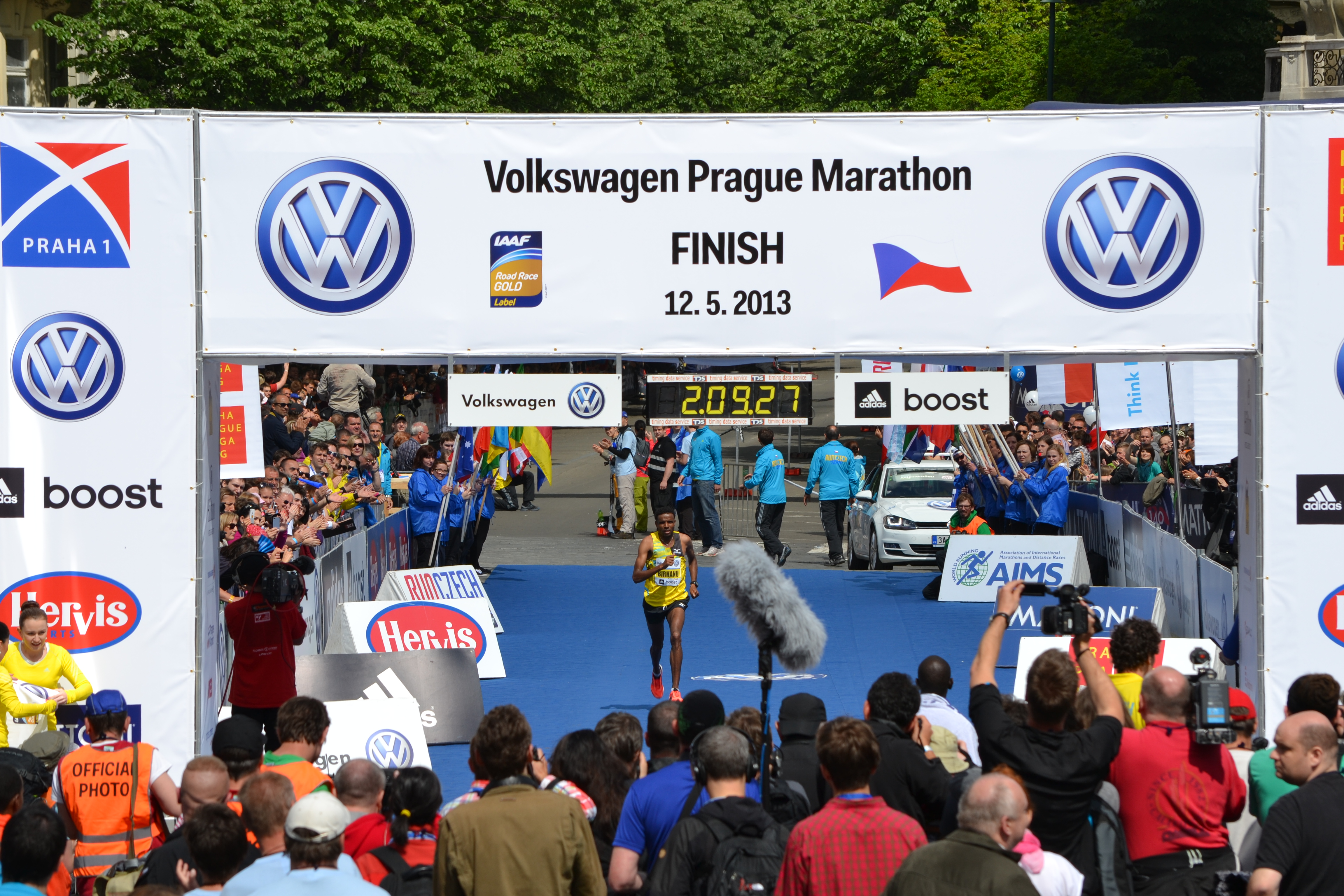 Prague Marathon 2013